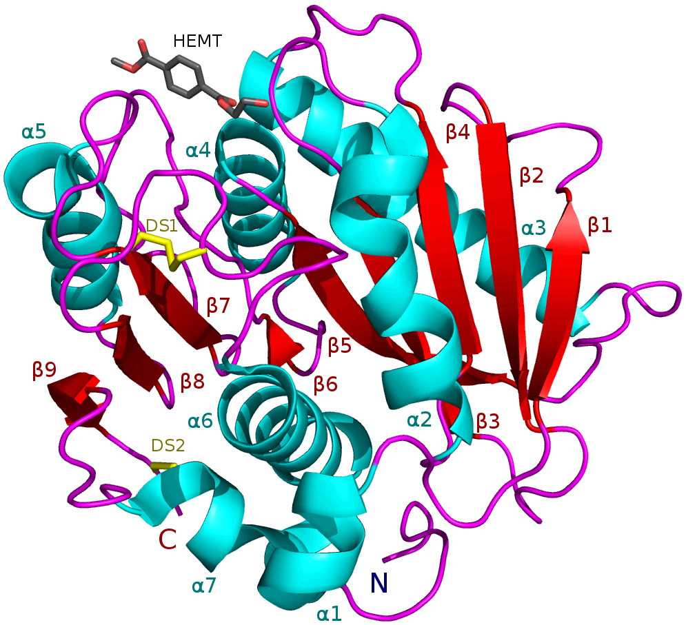 1.3 Å crystal structure of a PETase R103G/S131A mutant enzyme in complex with HEMT from Ideonella sakaiensis strain 201-F6. Released: 2017-12-20. PDBID: 5XH3. Cysteine disulfide bridges (DS1 and DS2), HEMT (1-(2-hydroxyethyl) 4-methyl terephthalate), N- and C-terminals are shown in the picture. β-sheets (β1-9) and α-helixes (α1-7) are numbered according to their order in the peptide chain from N- to C-terminal. Organism(s): Ideonella sakaiensis (strain 201-F6) Expression System: Escherichia coli BL21(DE3) This picture is made with PyMOL version 2.0.4 and is based on the following study: Han, Xu; Liu, Weidong; Huang, Jian-Wen; Ma, Jiantao; Zheng, Yingying; Ko, Tzu-Ping; Xu, Limin; Cheng, Ya-Shan; Chen, Chun-Chi (2017-12-13). "Structural insight into catalytic mechanism of PET hydrolase". Nature Communications. 8. ISSN 2041-1723. PMC 5727383. PMID 29235460. 中文（台灣）: 解析度為1.3 Å的PETase R103G/S131A晶體結構。來自細菌Ideonella sakaiensis strain 201-F6。 Released: 2017-12-20. PDBID: 5XH3. 圖中標有Cysteine的雙硫鍵(DS1、DS2)；反應物的類比物HEMT (1-(2-hydroxyethyl) 4-methyl terephthalate)；肽鍊的N端和C端。β-sheets (β1-9)及α-helixes (α1-7)根據N至C的順序標上序號。 生物：Ideonella sakaiensis (strain 201-F6) 表現系統：Escherichia coli BL21(DE3) This picture is made with PyMOL version 2.0.4 and is based on the following study: Han, Xu; Liu, Weidong; Huang, Jian-Wen; Ma, Jiantao; Zheng, Yingying; Ko, Tzu-Ping; Xu, Limin; Cheng, Ya-Shan; Chen, Chun-Chi (2017-12-13). "Structural insight into catalytic mechanism of PET hydrolase". Nature Communications. 8. ISSN 2041-1723. PMC 5727383. PMID 29235460.